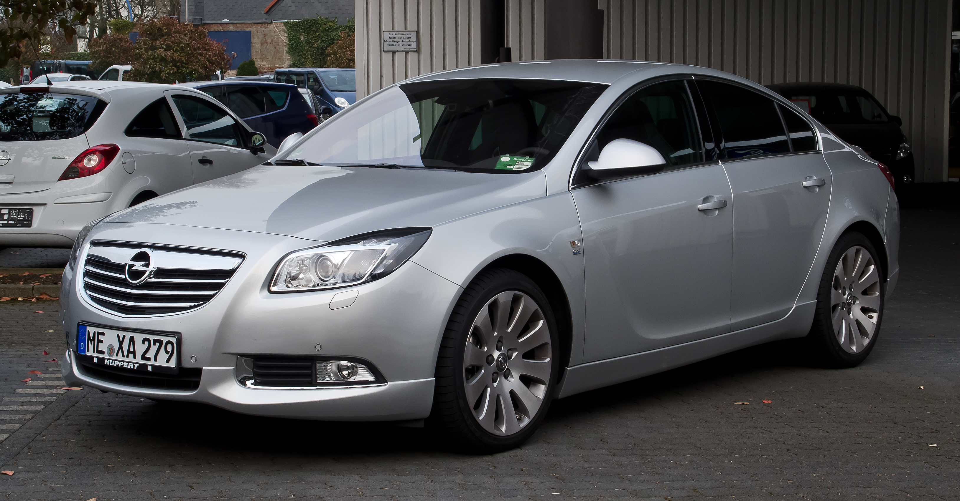 Opel Insignia 2.0 BiTurbo CDTI Sport OPC Line-Paket